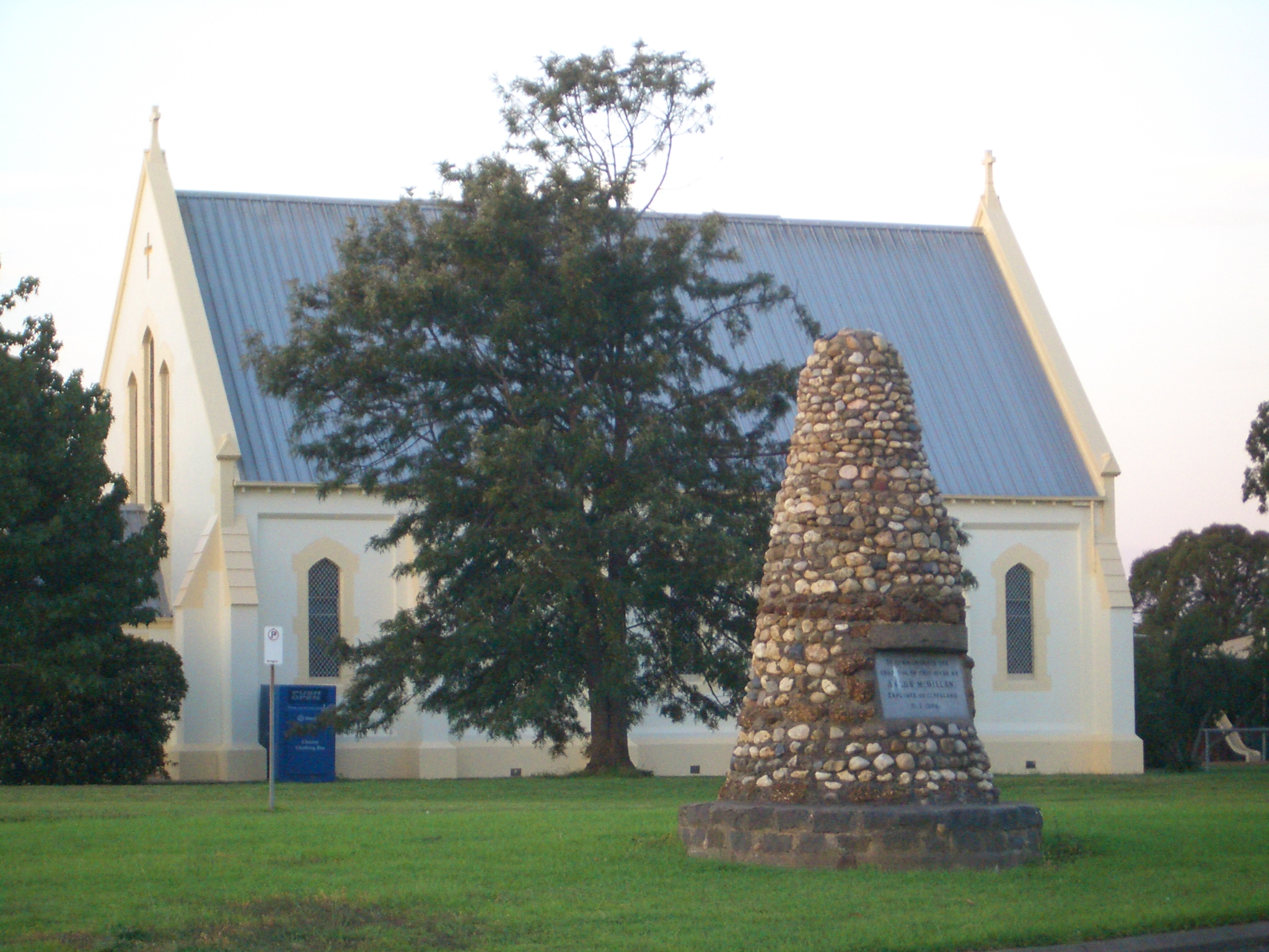 A (Catholic?) church in Stratford, Victoria, and a memorial sign for Angus McMillan on the lawn next to it